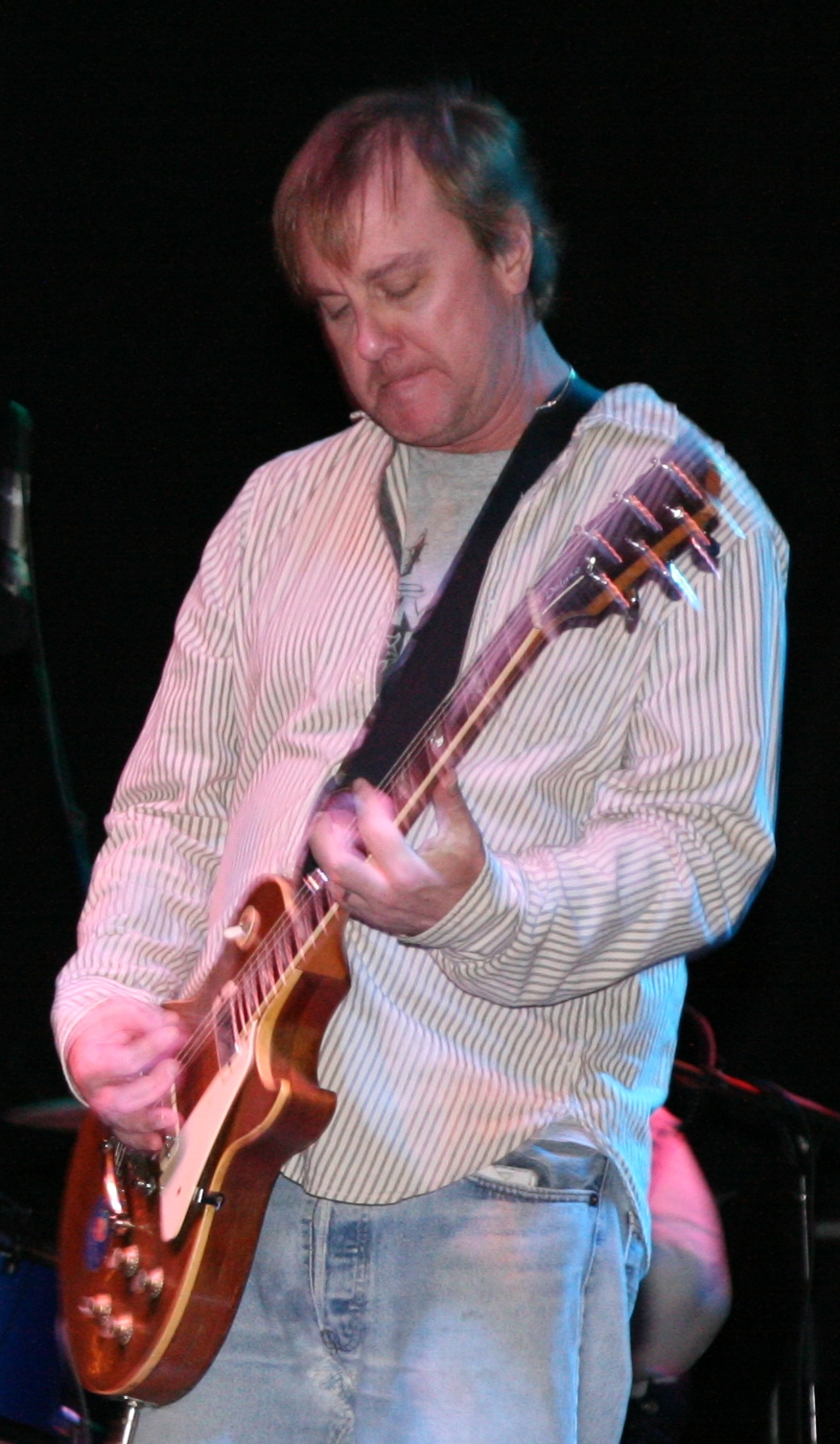 Dan Murphy of Soul Asylum in Urbana, Illinois